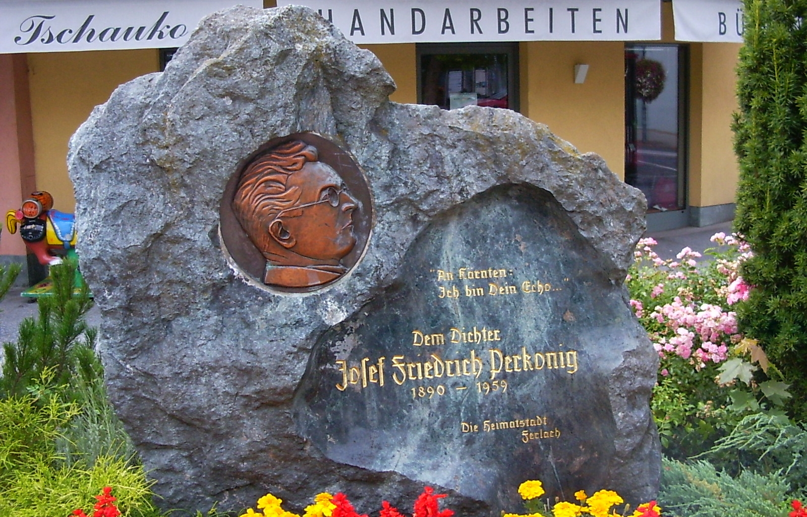 Josef Friedrich Perkonig Memorial at the main square Ferlach.